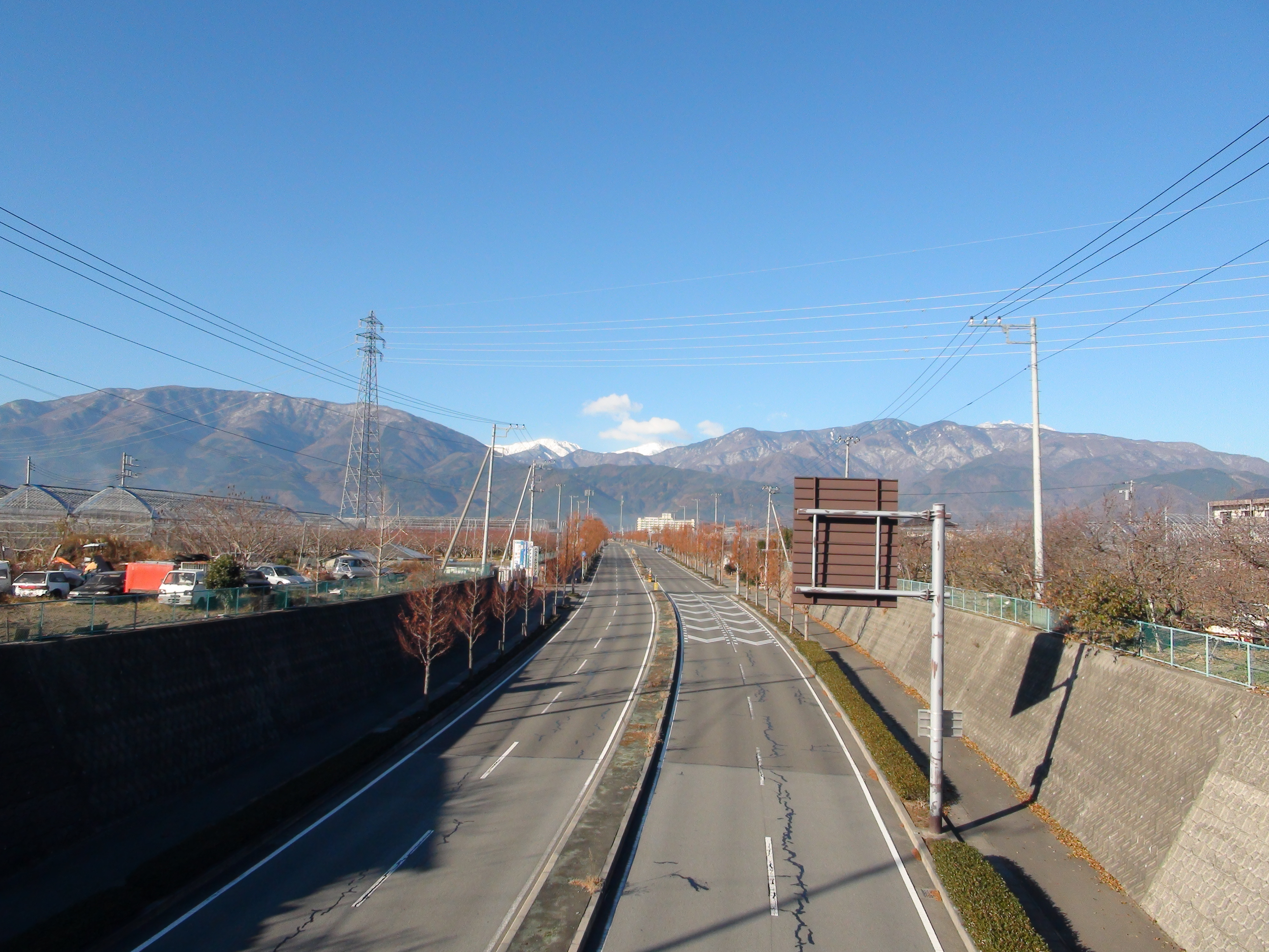 Alps Street, Yamanashi prefectural road, Minami Alps